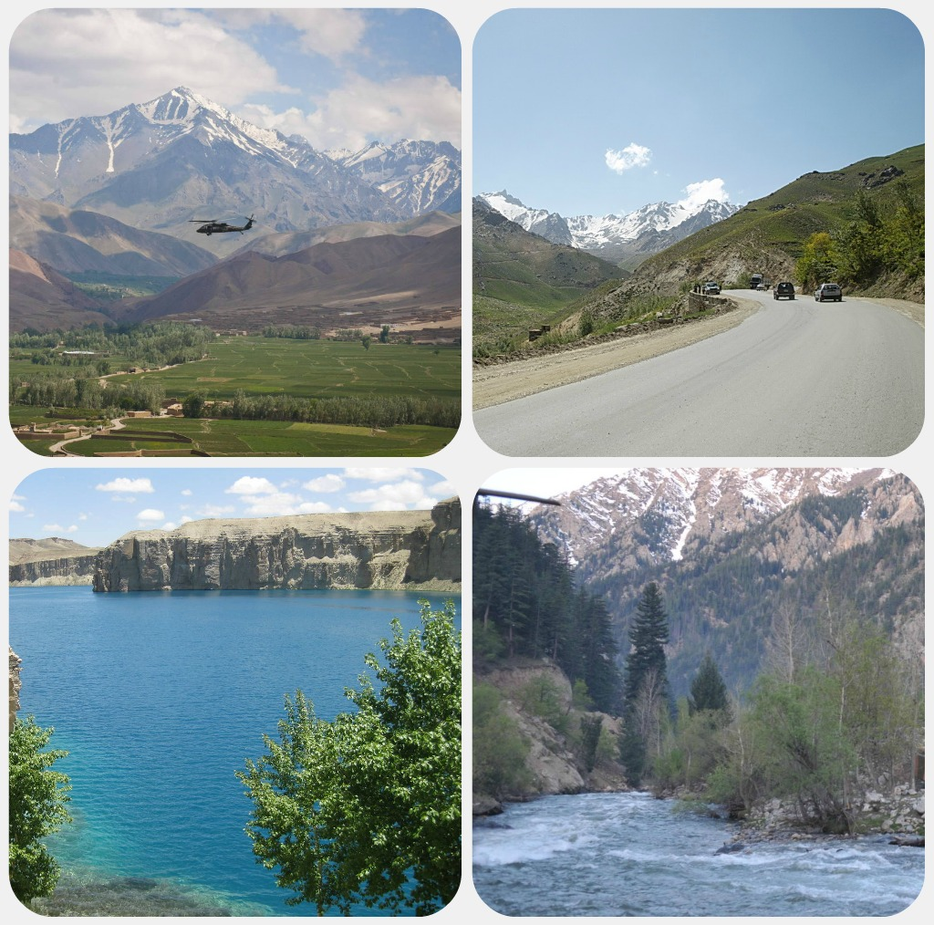 Afghanistan collage, from left to right: 1. Bamyan province, 2. The Salang Pass between Parwan and Baghlan provinces, 3. Band-e Amir National Park in Bamyan province, 4. River in Nuristan province.